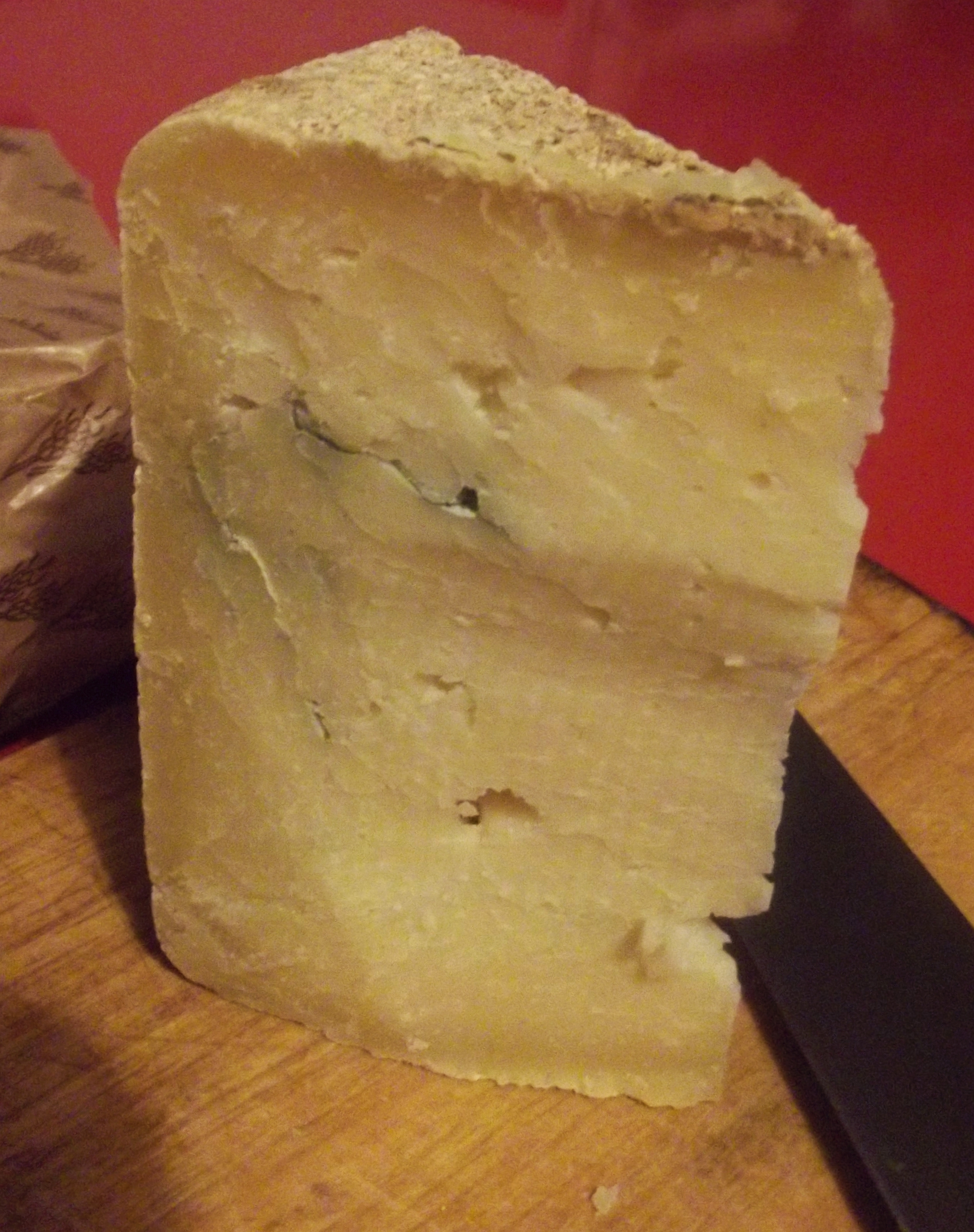 Toma del lait brusc, a traditional cheese from Piedmont (Italy)